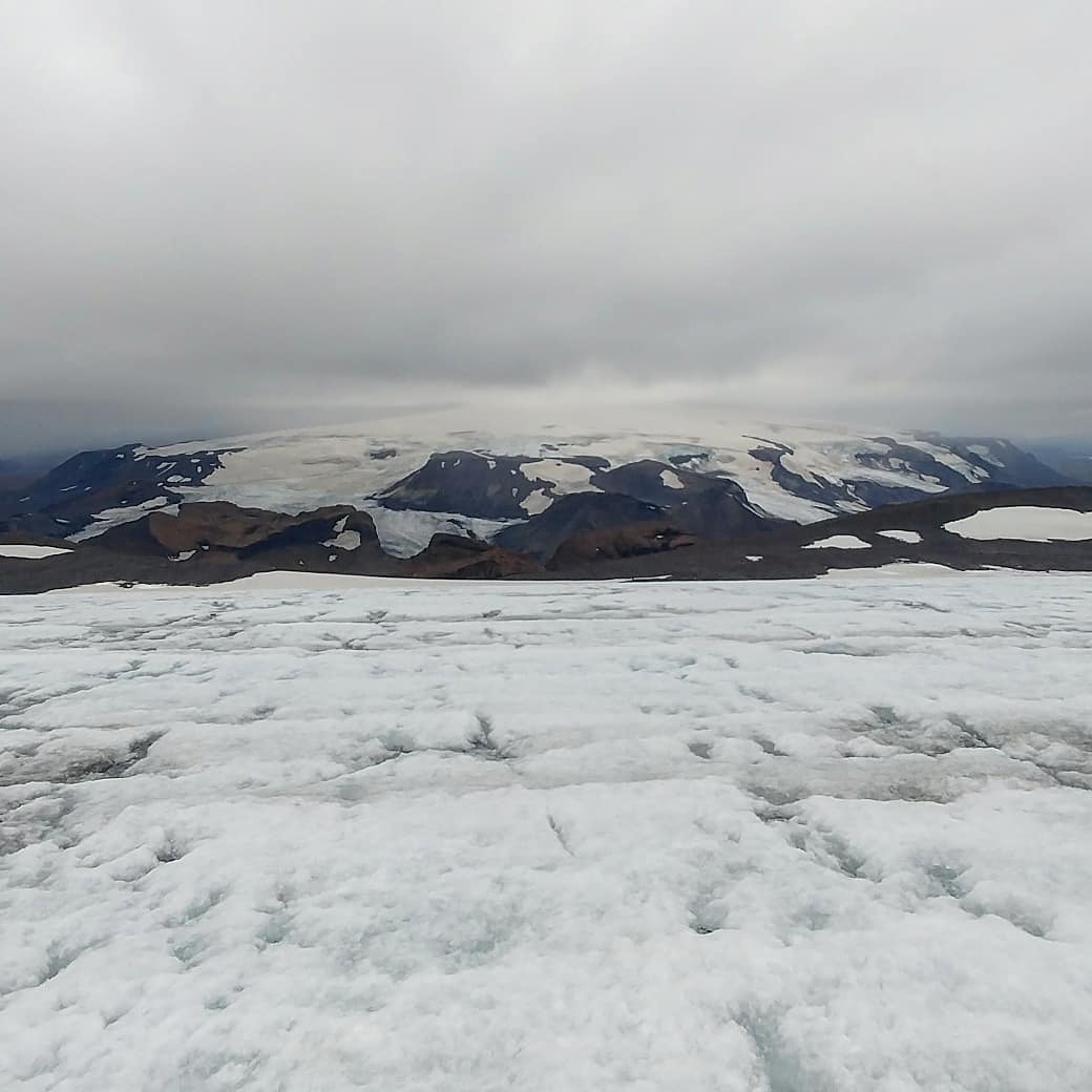 Þórisjökull glacier in Iceland as seen from Geitlandsjökull to the north.